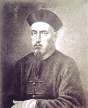 Auguste Chapdelaine, missionnary of the MEP